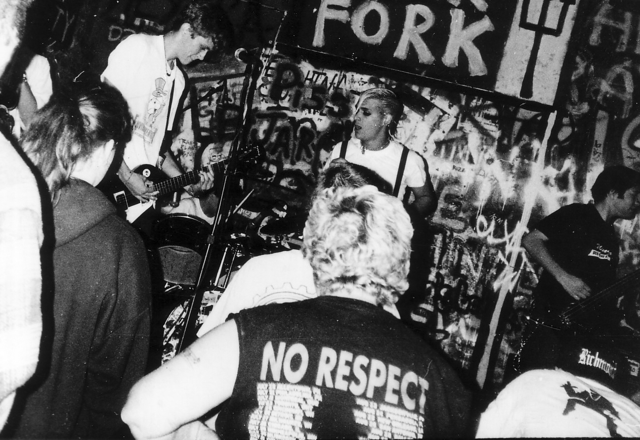 I took and own picture and all rights.